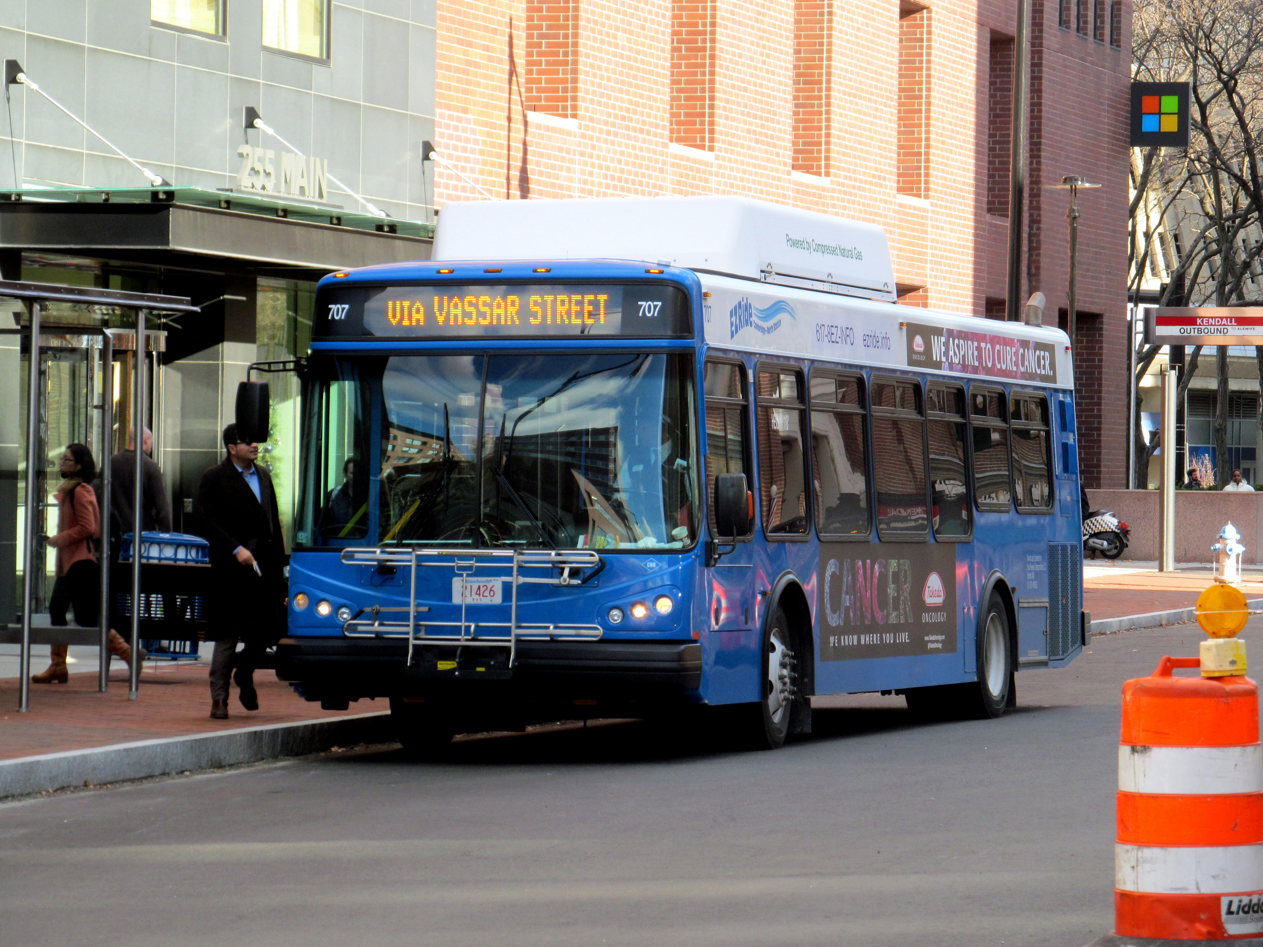 An EZRide bus at Kendall/MIT station in December 2015